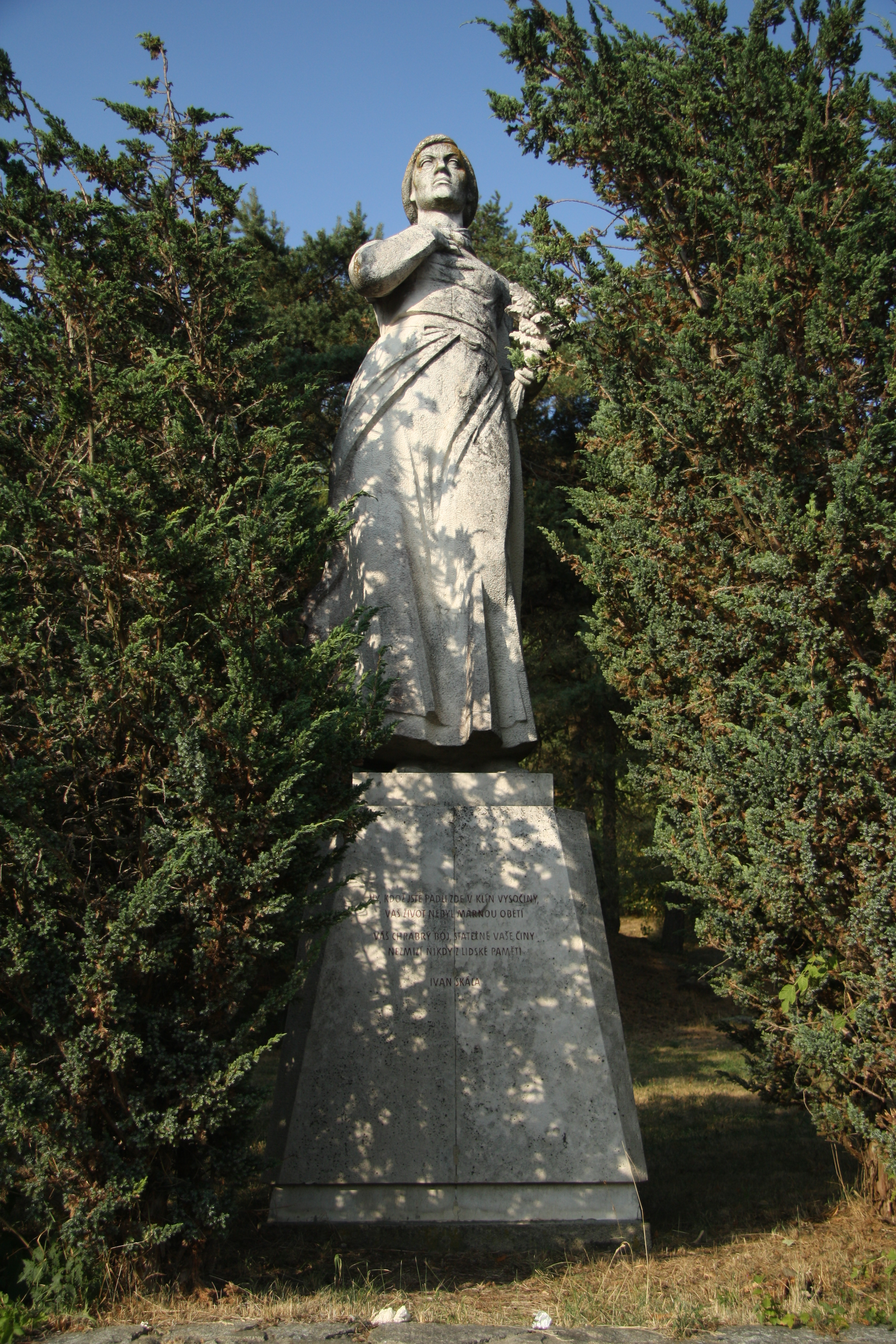 Overview of statue Matka Vysočiny in Velké Meziříčí, Žďár nad Sázavou District.